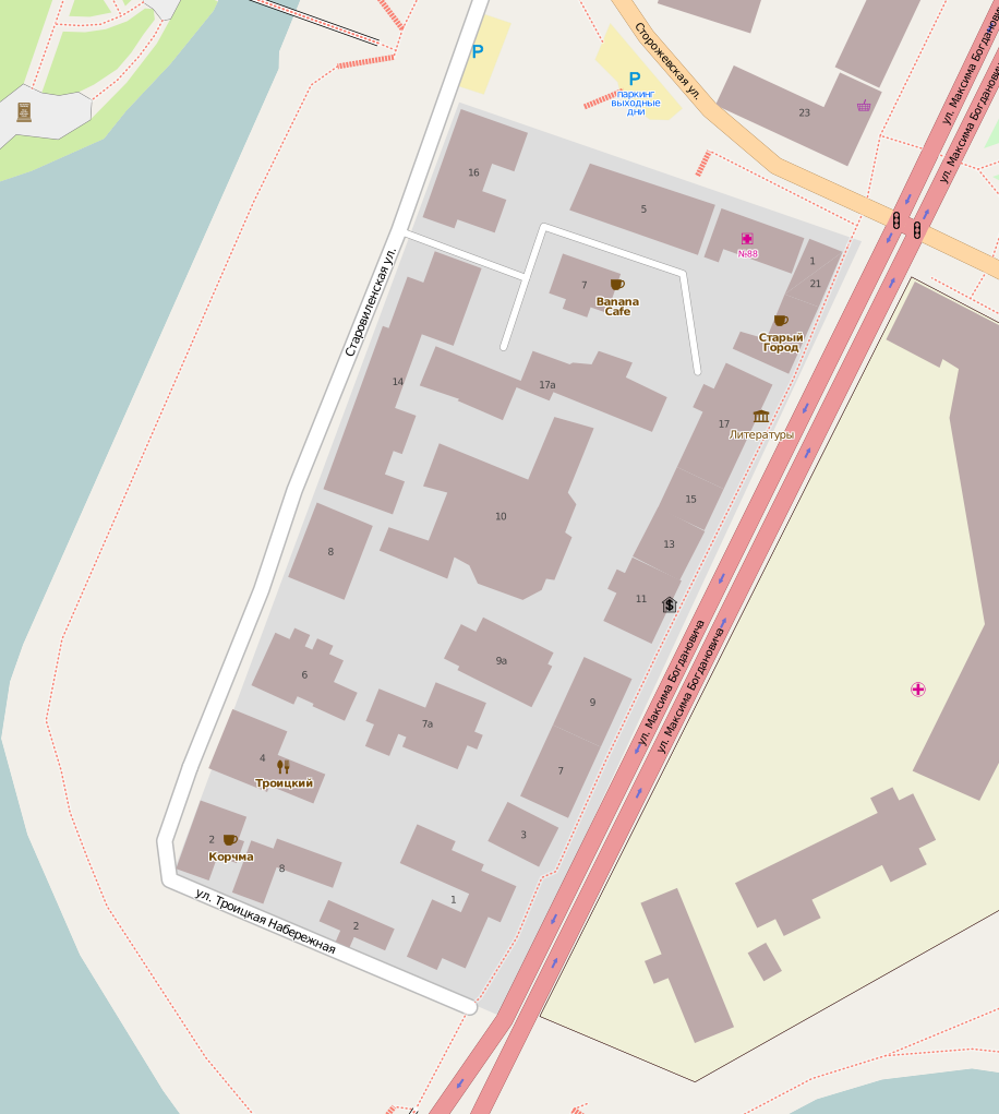 West part of the Trinity Hill (Minsk, Belarus). From the